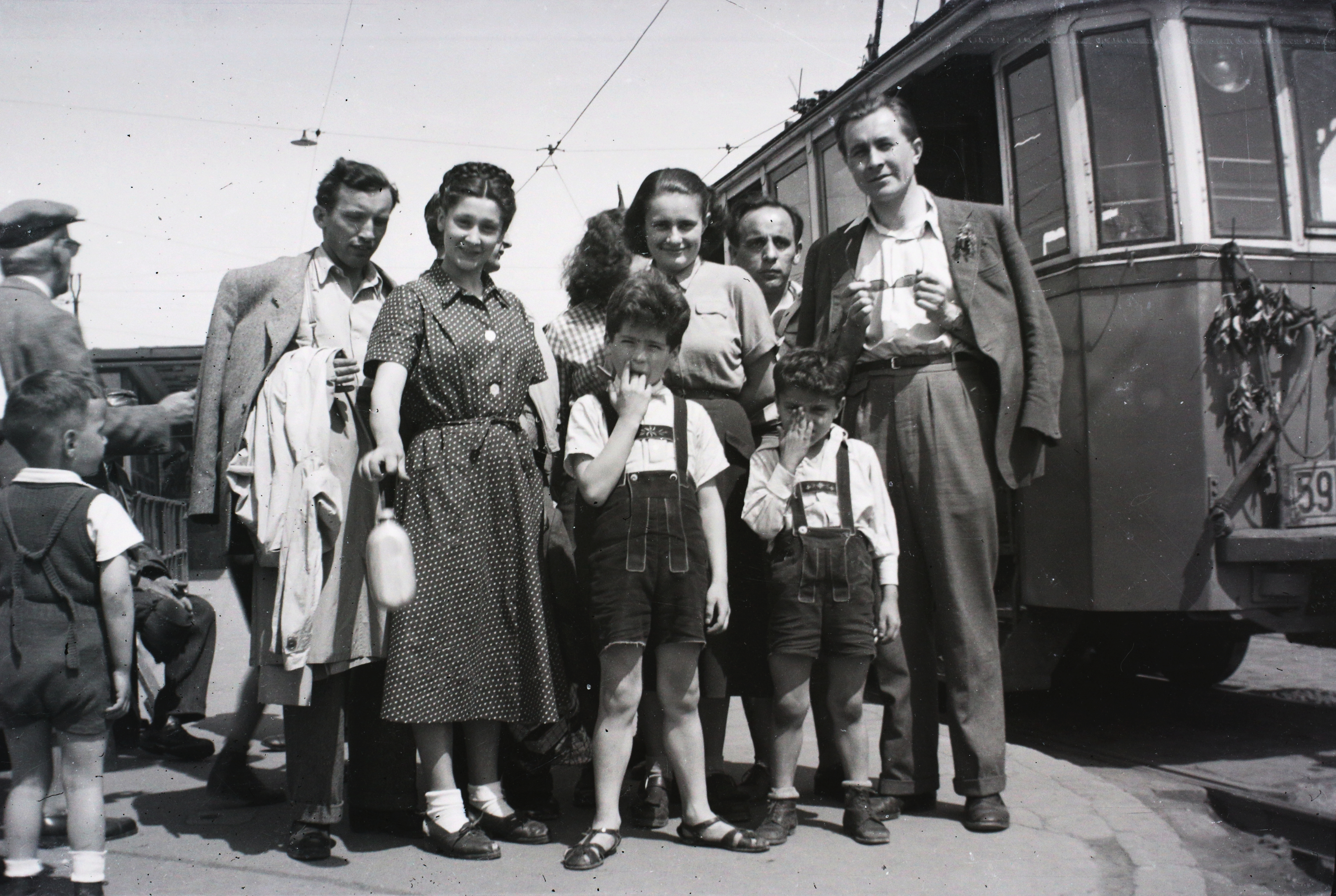 Location: Hungary, Budapest XII. Tags: tram, Budapest, group photo